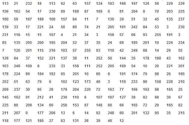 FROG cypher key table, 251 bytes